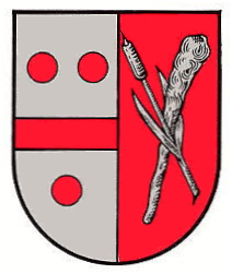 Coat of arms of Wartenberg-Rohrbach